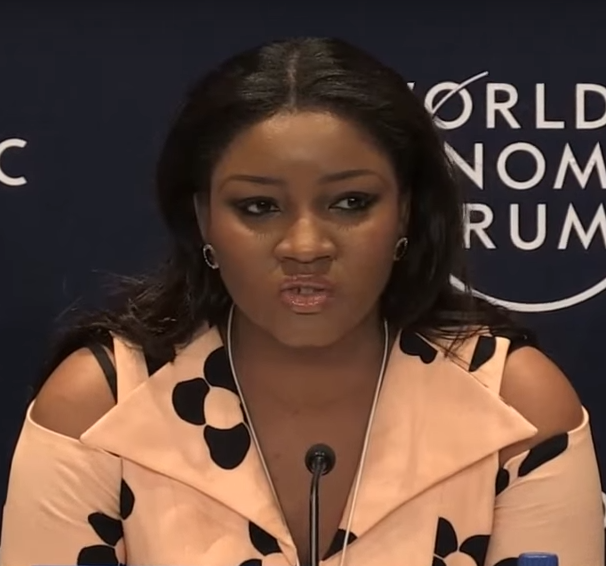 Omotola Jalade Ekeinde at the WEF in June 2015 in Cape Town